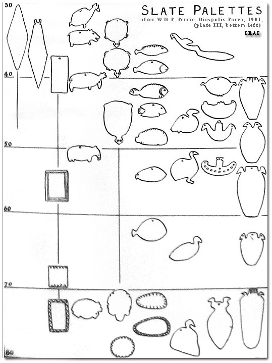 Slate Palettes